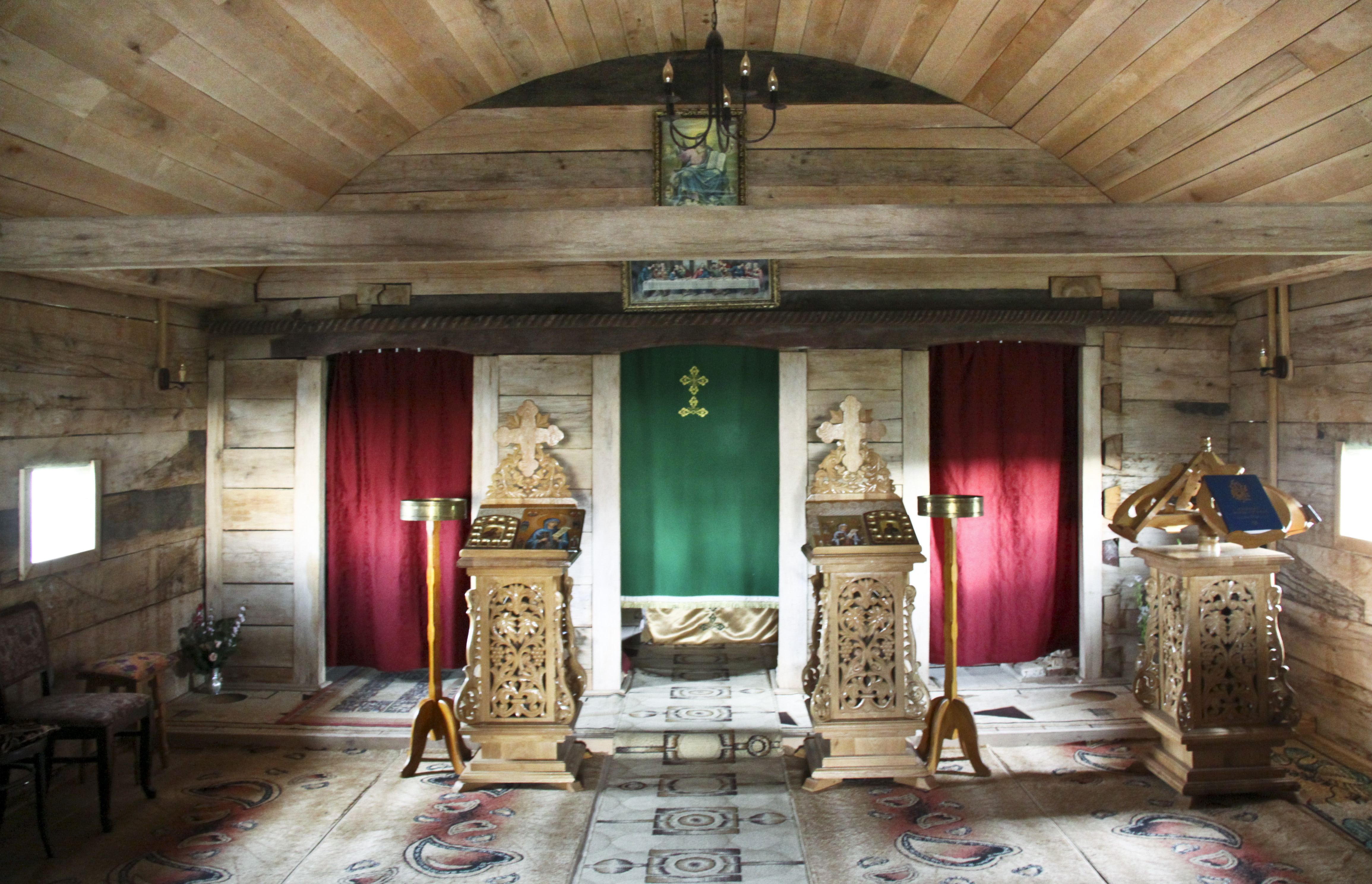 Videle-Cartojani, Teleorman county, Romania: the wooden church.